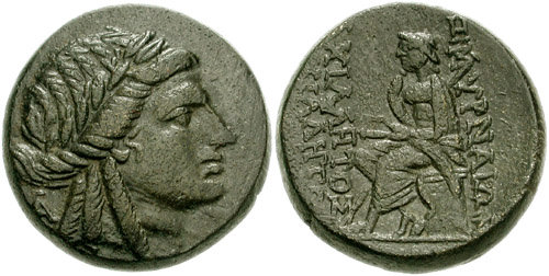 Smyrna, 190-30 BC. Æ Homerion (20mm, 10.64 gm). Achilletos, son of Achilletos, magistrate. Laureate head of Apollo right; A behind / ΣΜΥΡΝΑΙΩΝ, the poet Homer seated left, holding staff and scroll. AXIΛΛHTOΣ [A]XIΛΛHTO[Υ] to right.